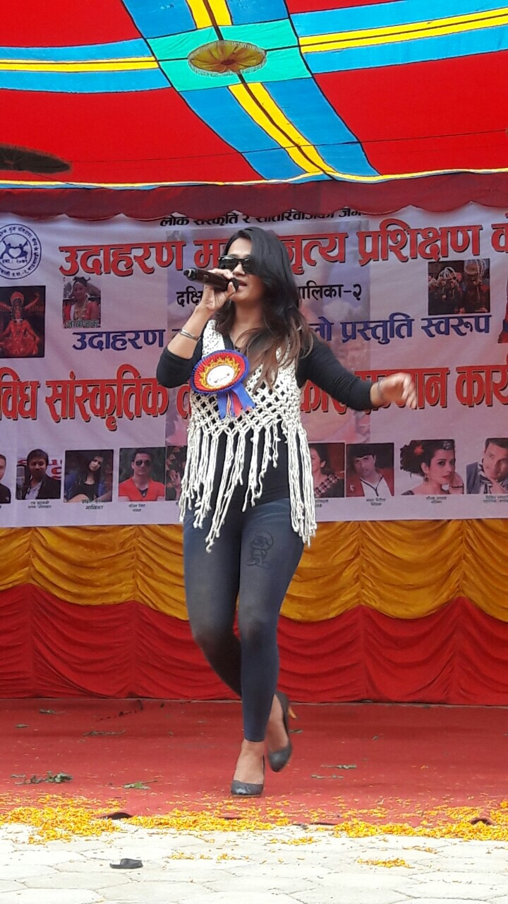 Sashi Rawal is a nepalese singer mostly popular amonst youngsters.